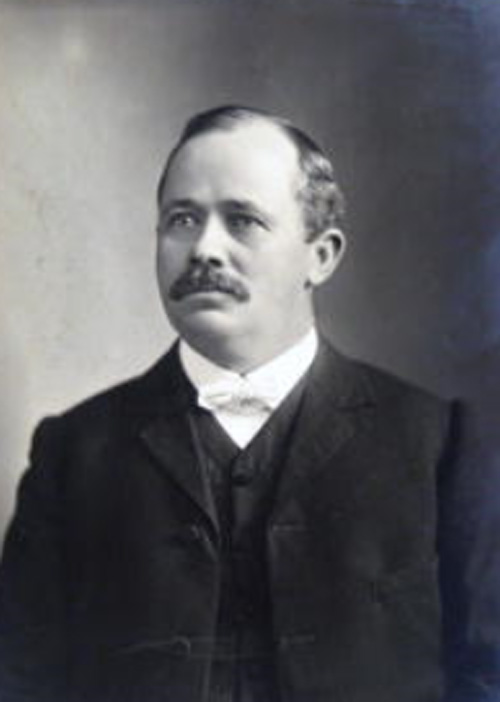 Sir Allen Arthur Taylor circa 1910 of Mondeval, Leura